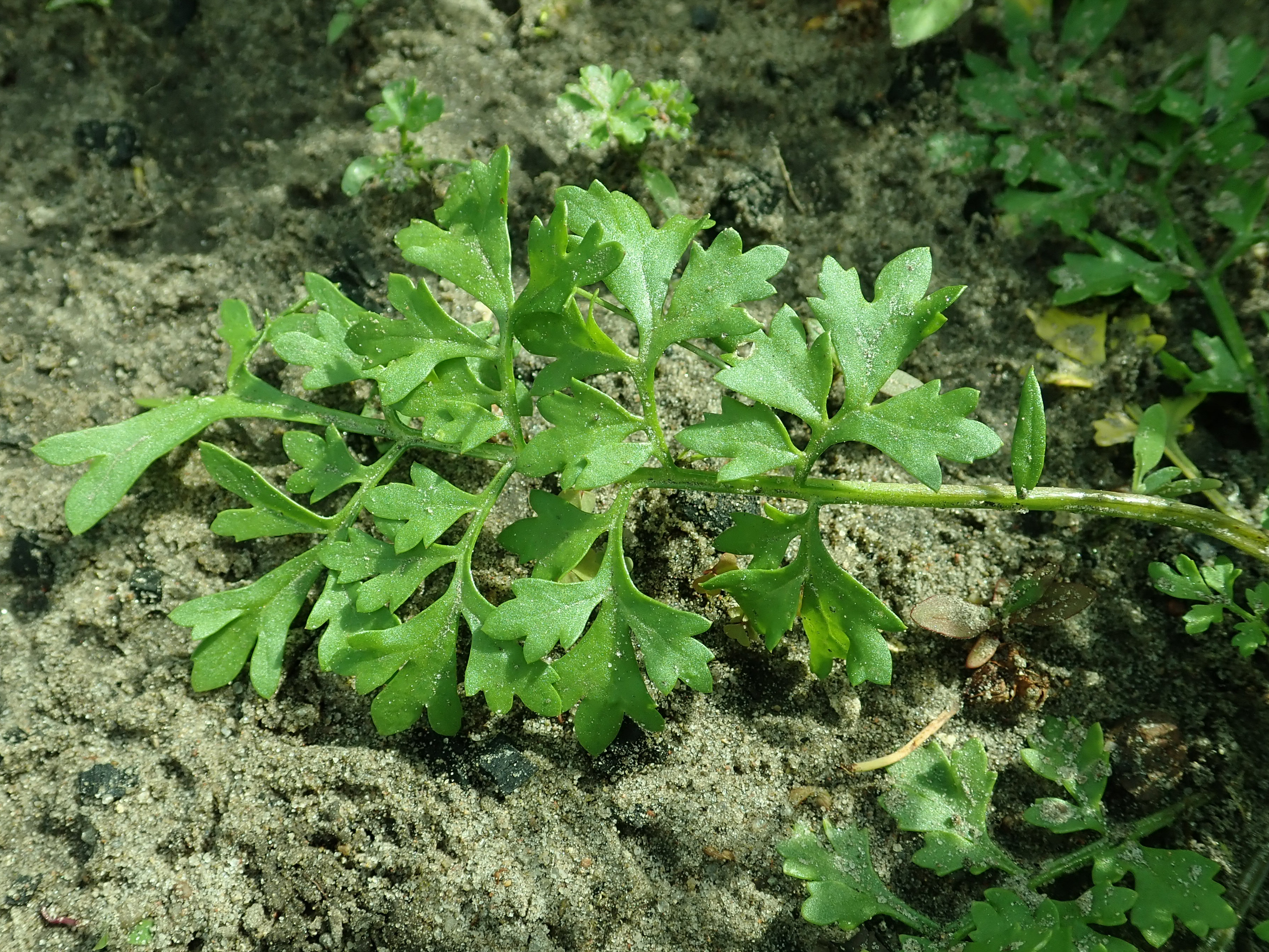 Lepidium sativum, allotment garden in Szczecin, West Pomeranian Voivodeship, Poland.